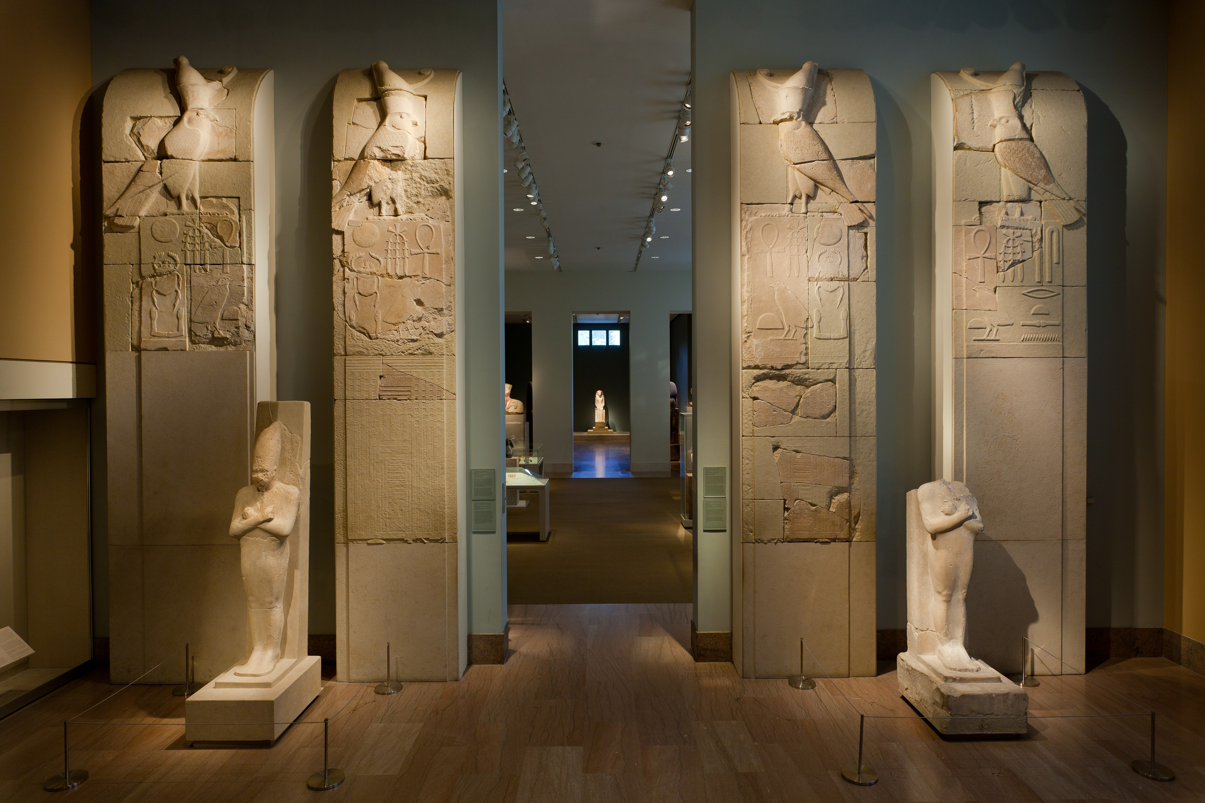 Name Panels from the Inner Wall of Senwosret I's Pyramid Complex; Metropolitan Museum of Art, New York